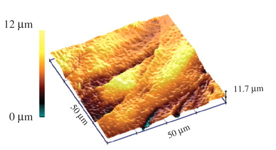 Scanning Ion Conductance Micrograph of a layer of rat ventricular myocytes. The picture is Fig. 7a(i) from Miragoli et al., J. R. Soc. Interface 8, 2011, 913-925 with removed labels